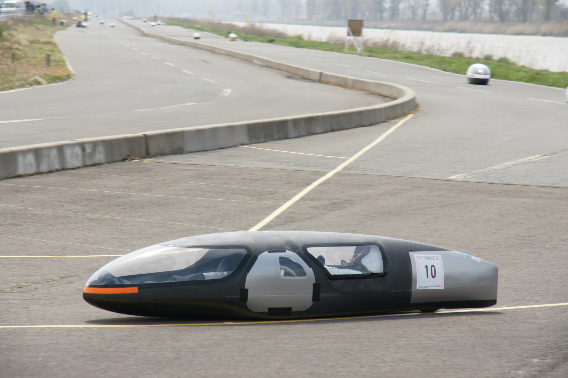 Energy Sving electric vehicle "ZDP Tachyon".